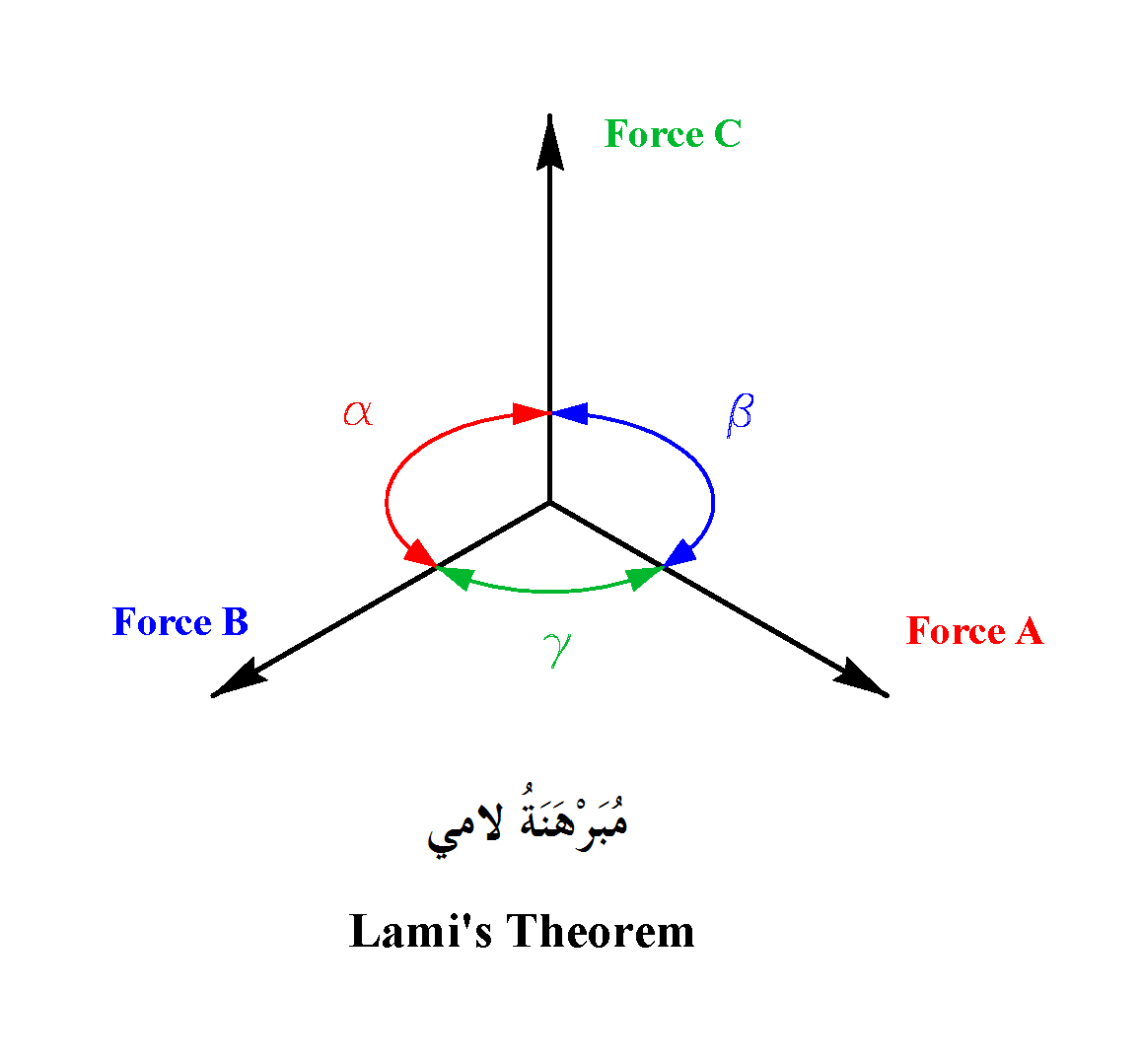 Lami's Theorem